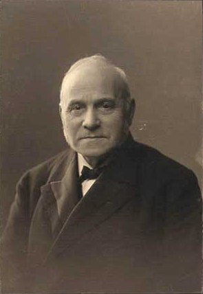 Danish tanning industrialist Meyer Hertz (1836-1914)